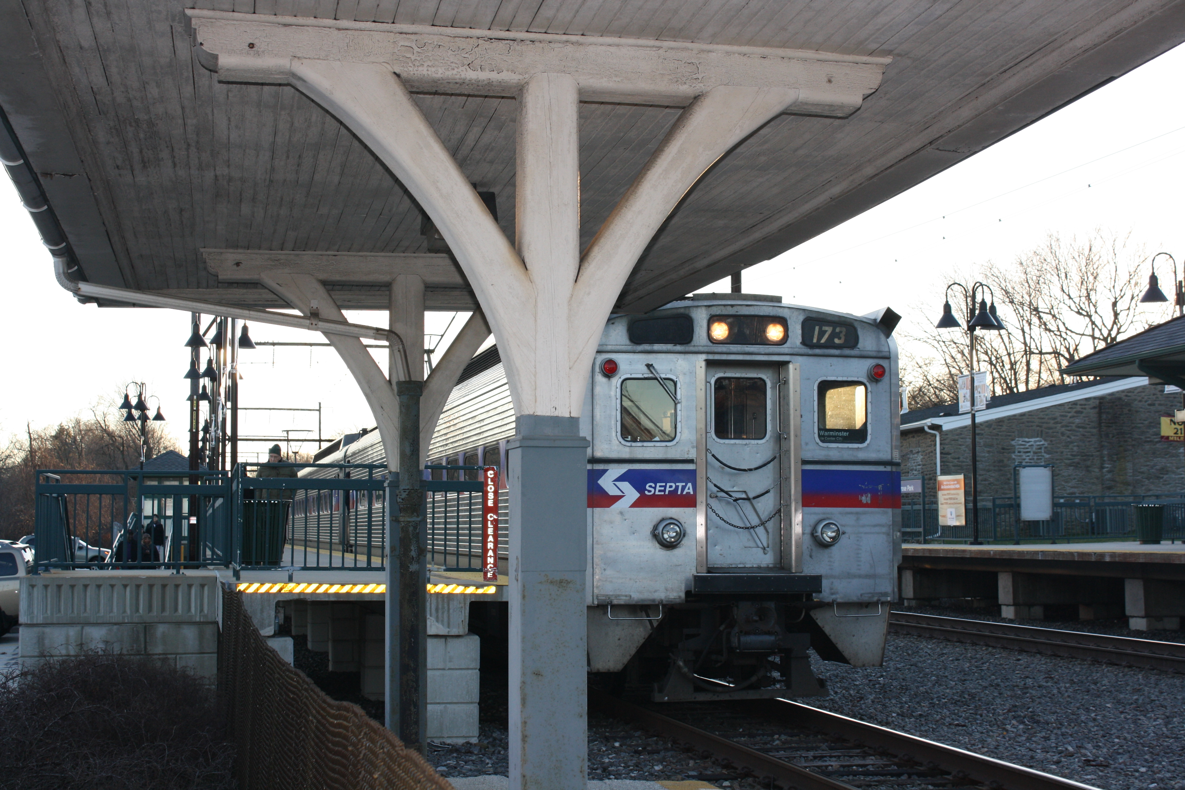 Regional Train at Melrose Park SEPTA station, PA.